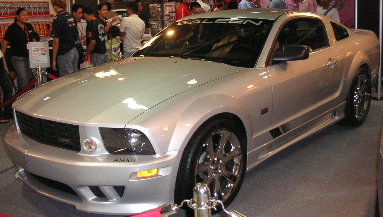 User's own picture. Saleen S81